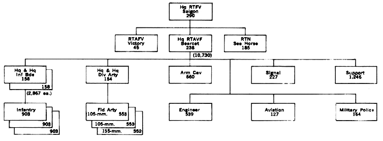 Diagram of Thai troups participating in the Vietman War as RTAVF